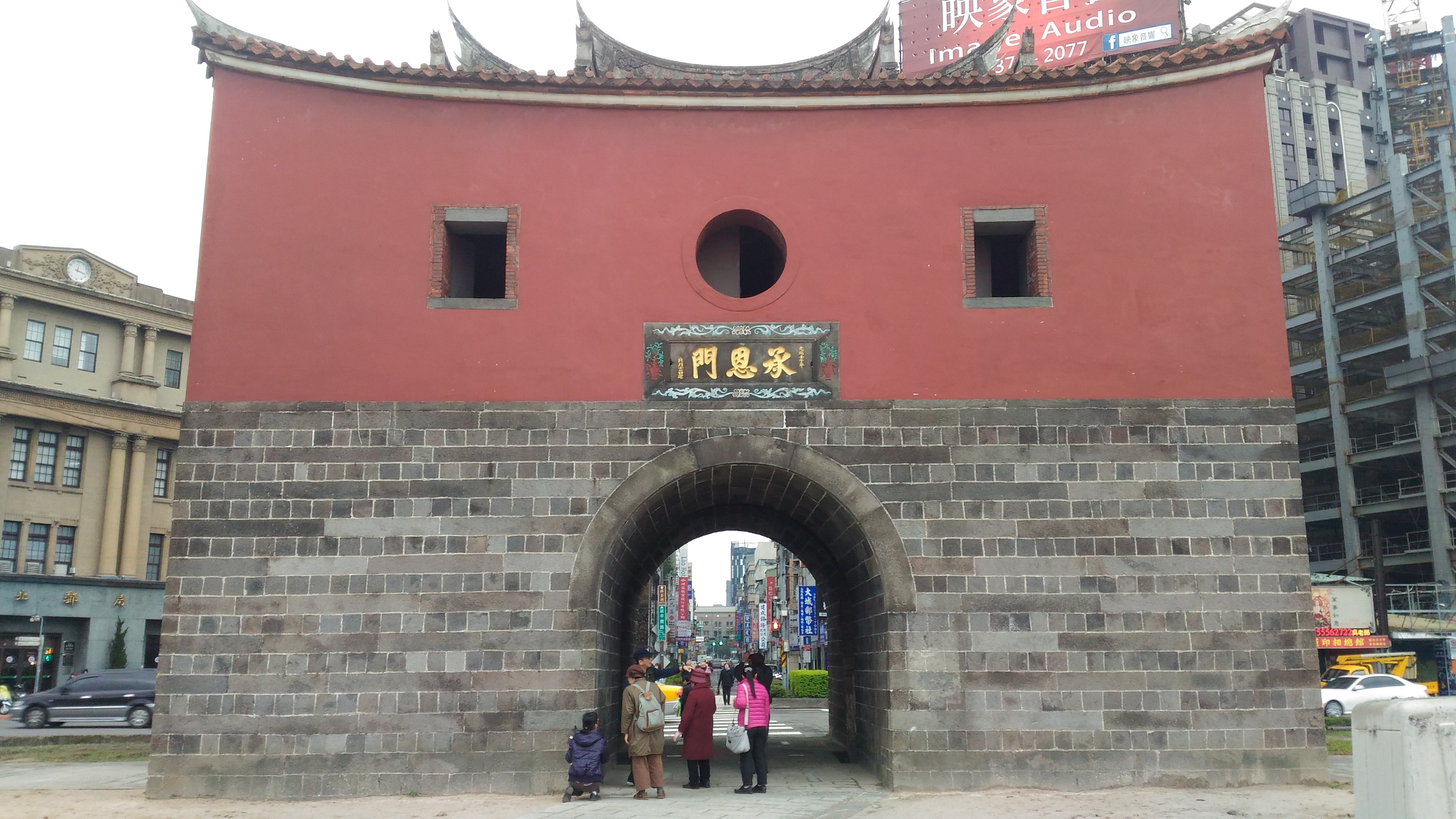 North Side of Old Taipei City North Gate